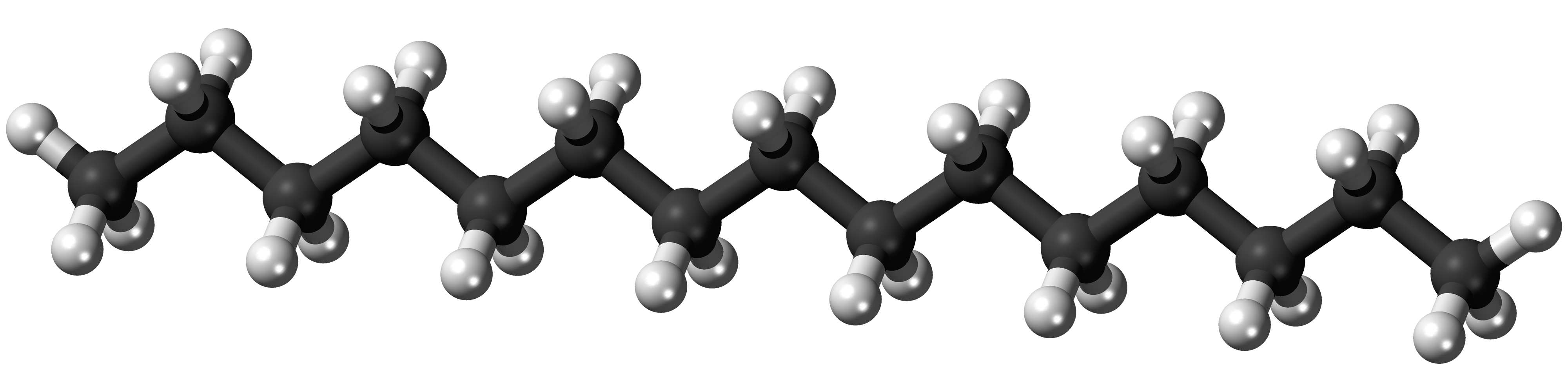 Ball-and-stick model of the pentadecane molecule, an alkane with 15 carbon atoms. Color code: Carbon, C: black Hydrogen, H: white